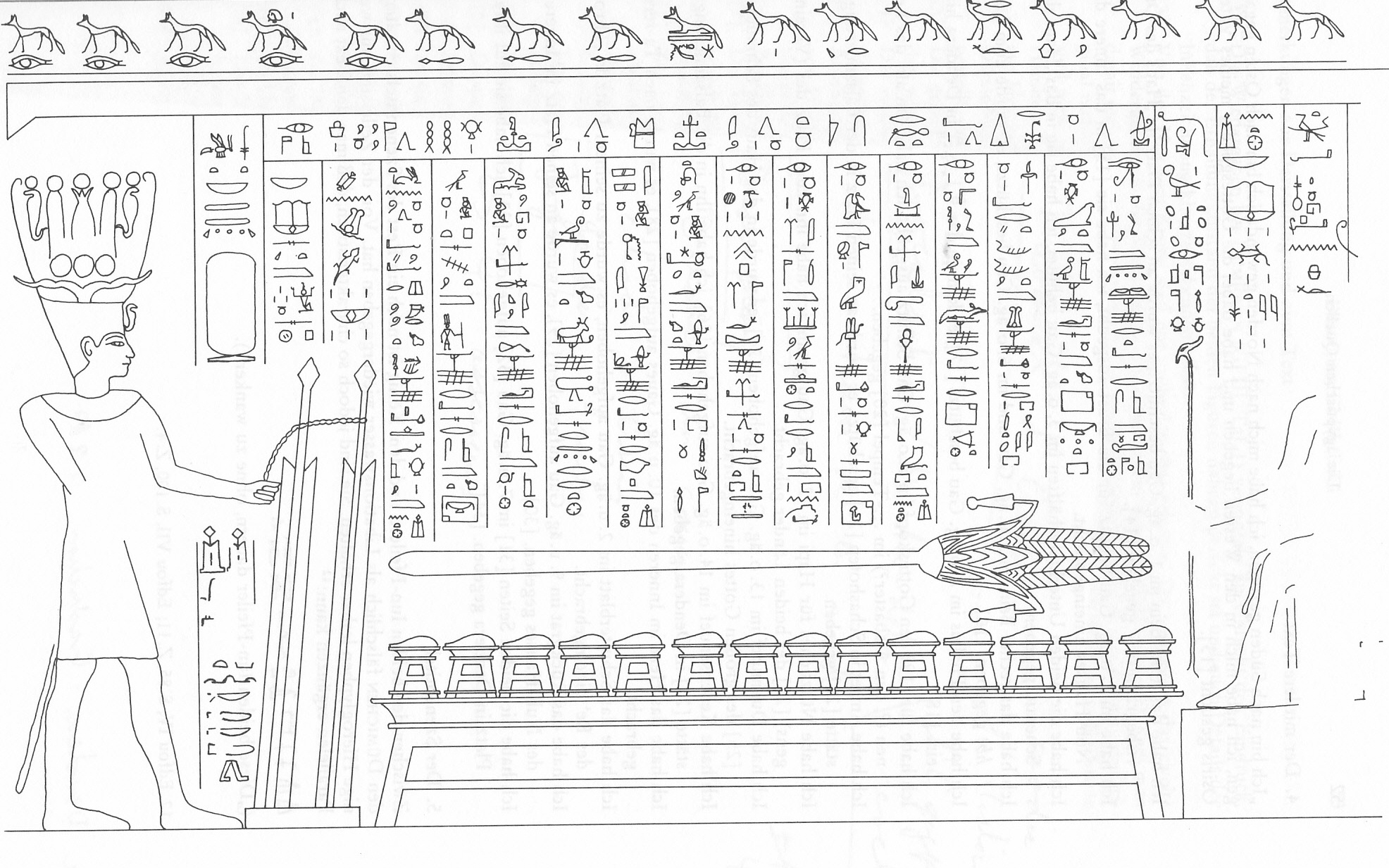 relevé d'un relief du temple de Dendérah